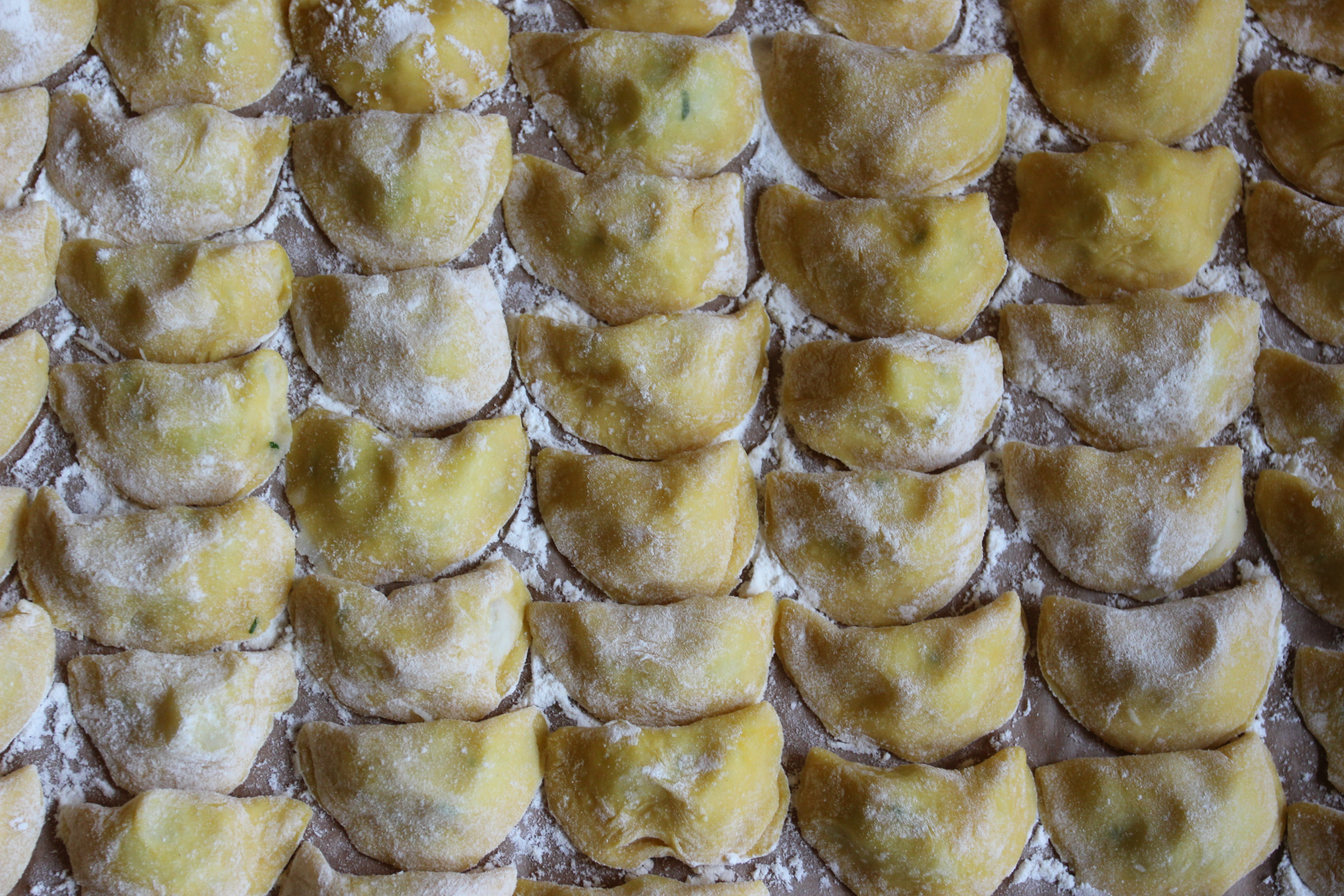 Schlutzkrapfen